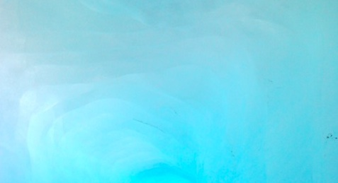 Blue Ice over 8 thousand years from inside the Ice Cave in Furka, taken by bohdan urbanowicz